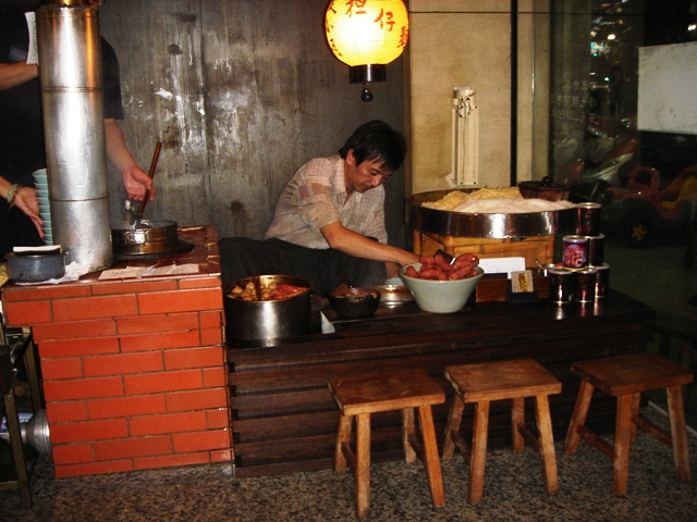 Du Xiao Yue, the famous danzi-noodle restaurant in Tainan Taken by (WT-shared) Shoestring in June, 2005 Location: Tainan